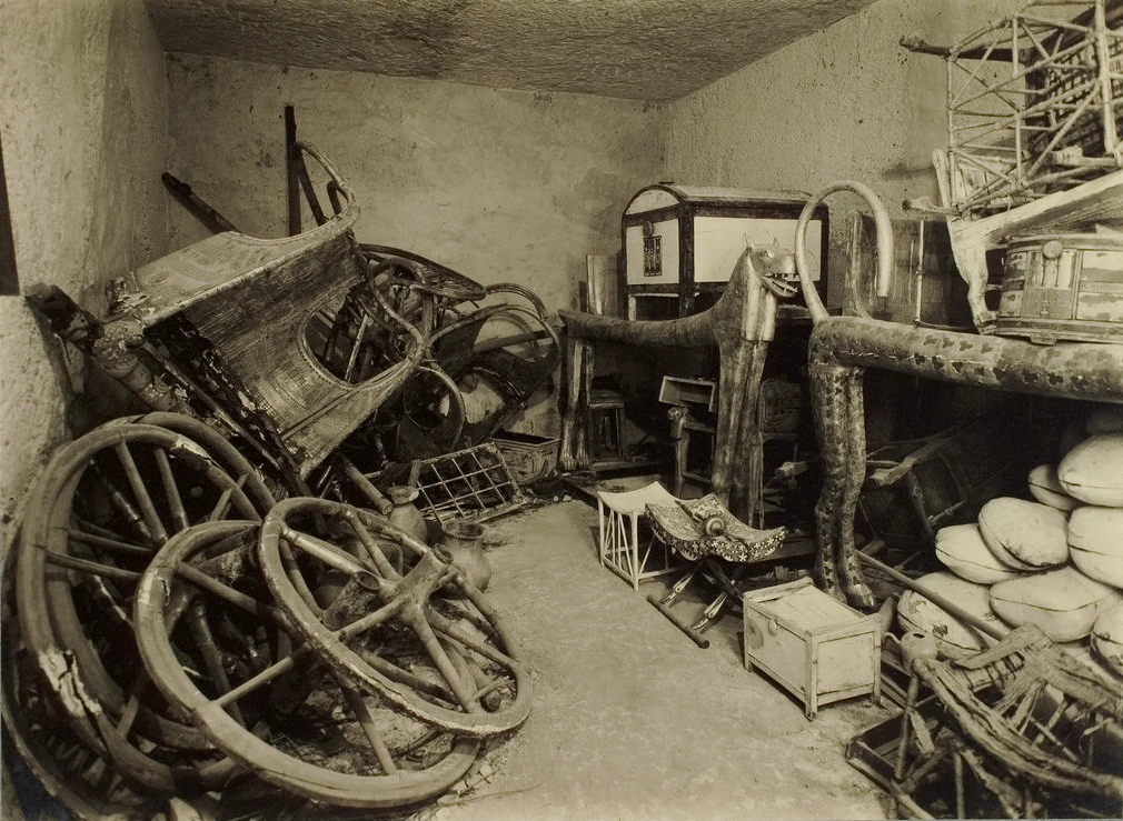 Harry Burton: Tutankhamun tomb photographs: a photographic record in 5 albums containing 490 original photographic prints ; representing the excavations of the tomb of Tutankhamun and its contents. Vol. 2